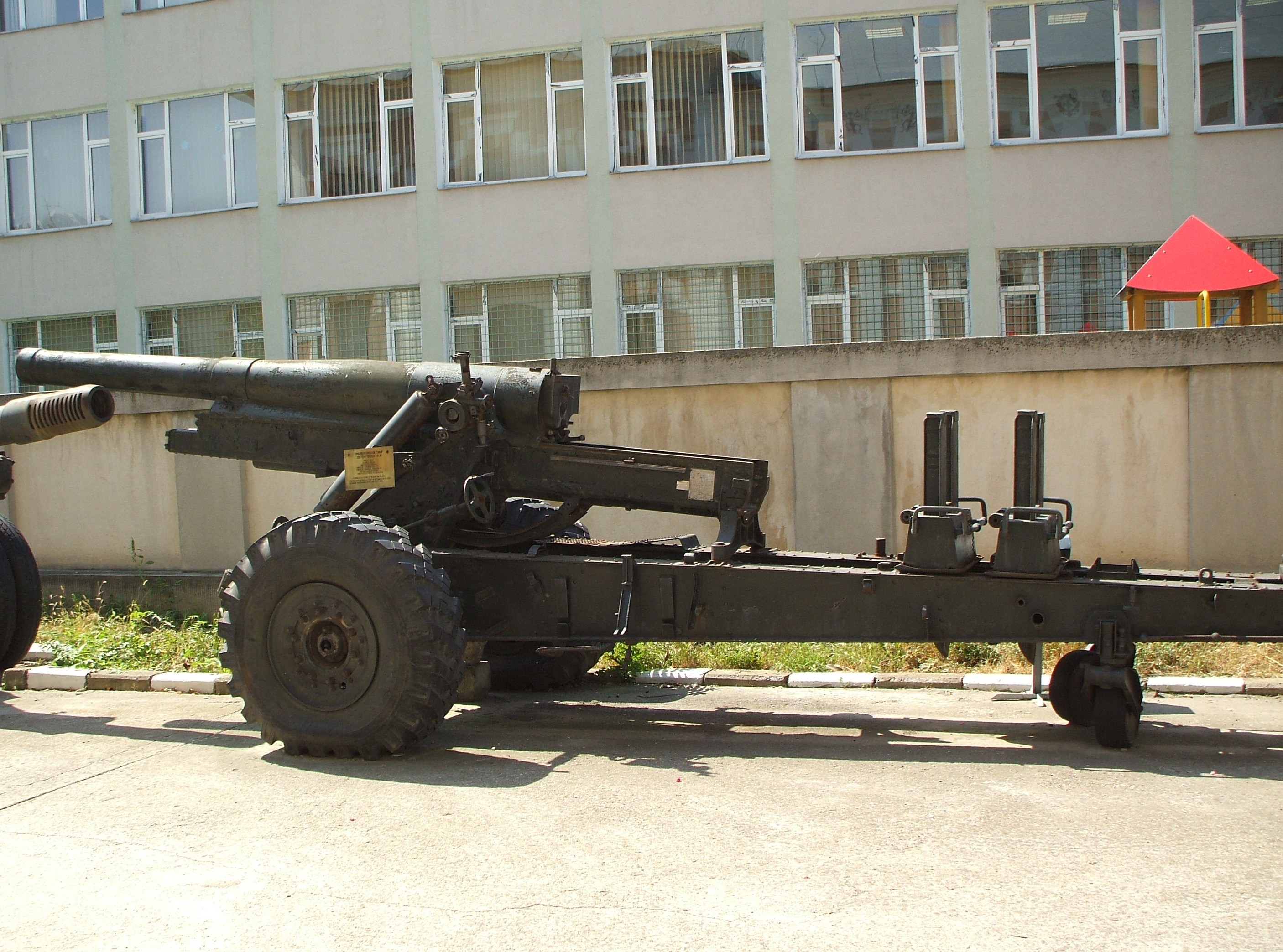 Škoda 149 mm K4 howitzer, also known as 15 cm hruba houfnice vzor 37 in Czechoslovakia and as the 15 cm schwere Feldhaubitze 37(t) in German service. On display at "King Ferdinand" National Military Museum in Bucharest, Romania.